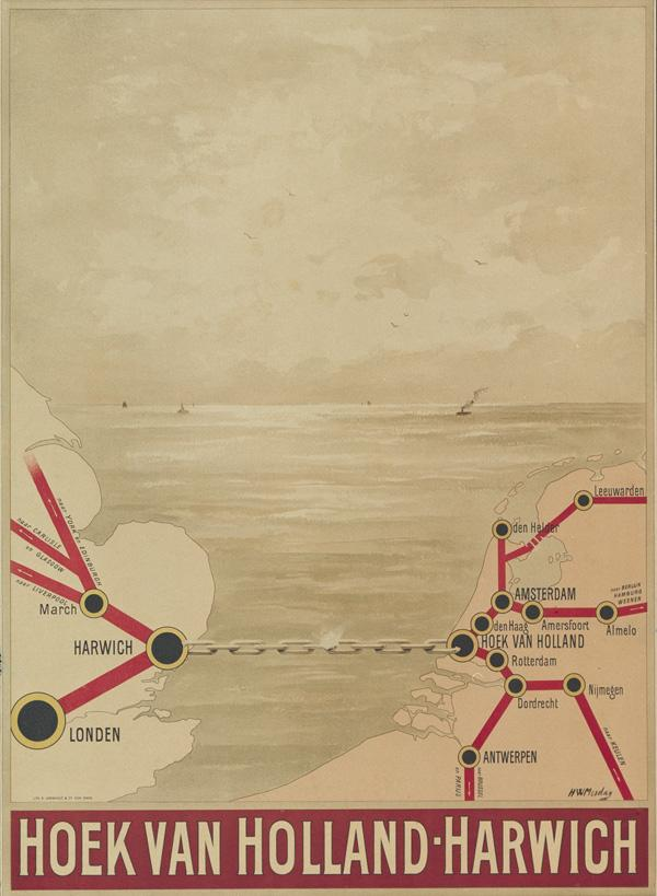 Hoek van Holland en Harwich, Affiche van H.W. Mesdag uit 1893